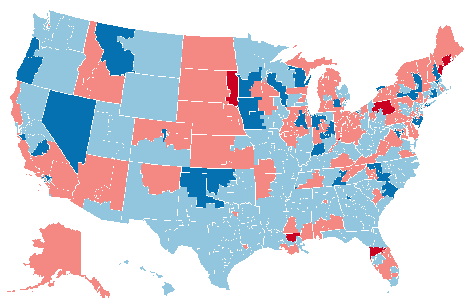 A map showing the results of the 1974 house elections.